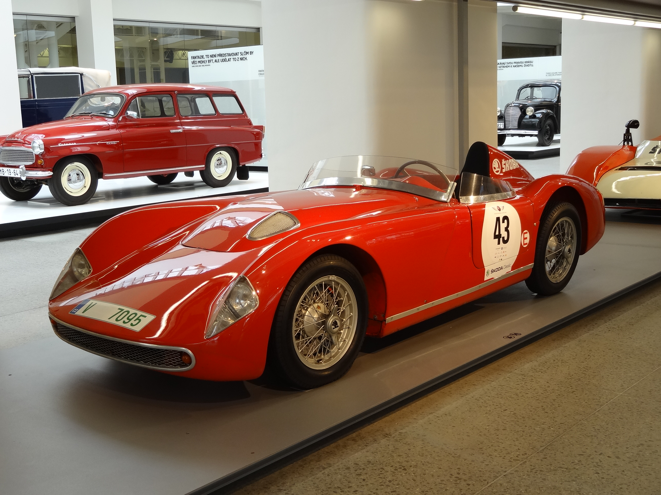 years of production: ,1958-60 cylinders: 4, displacement: 1089 ccm, output: 68kw (92hp), gearbox: 5+R, max speed 190 km/h